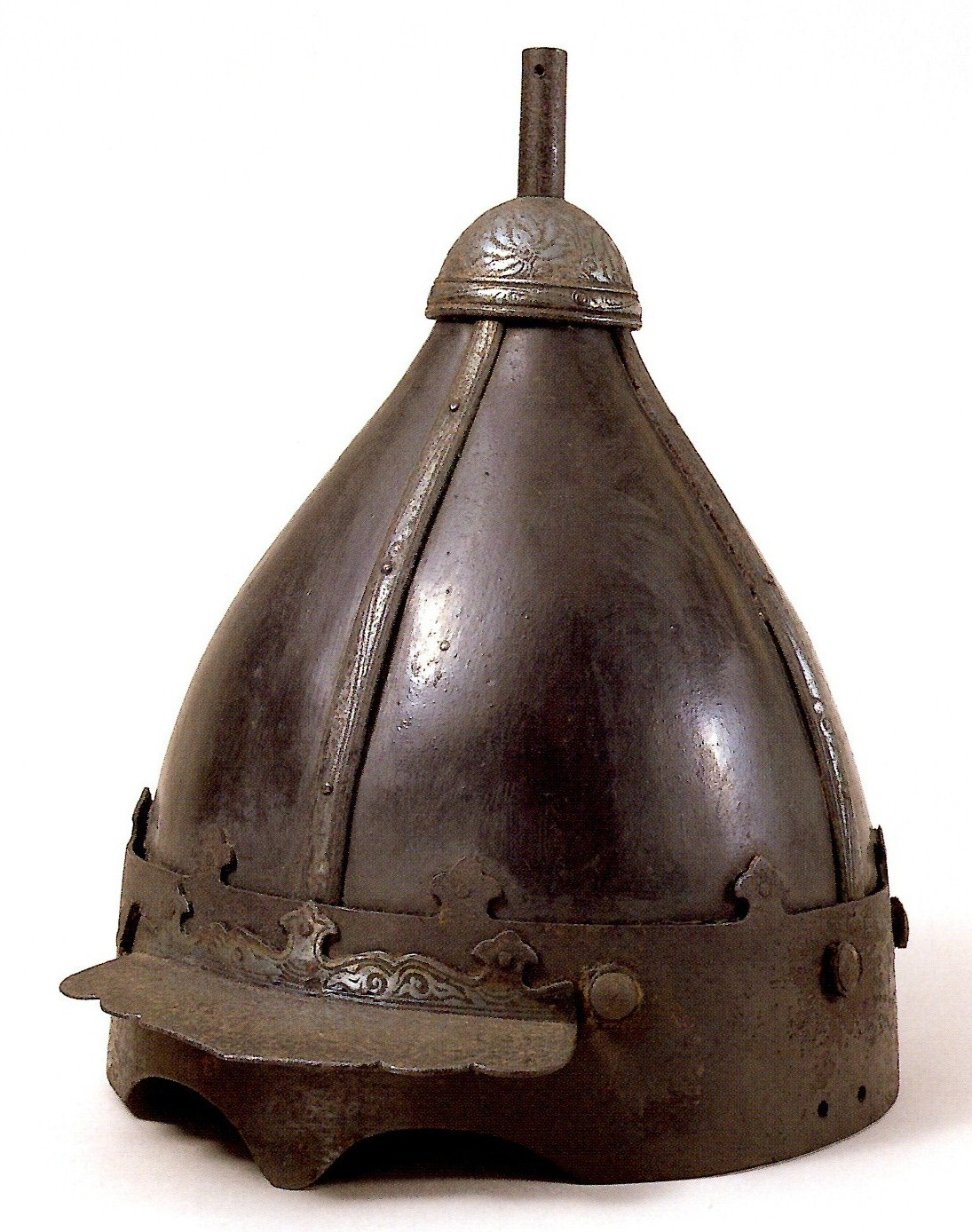 The black helmet of a Mongolian army